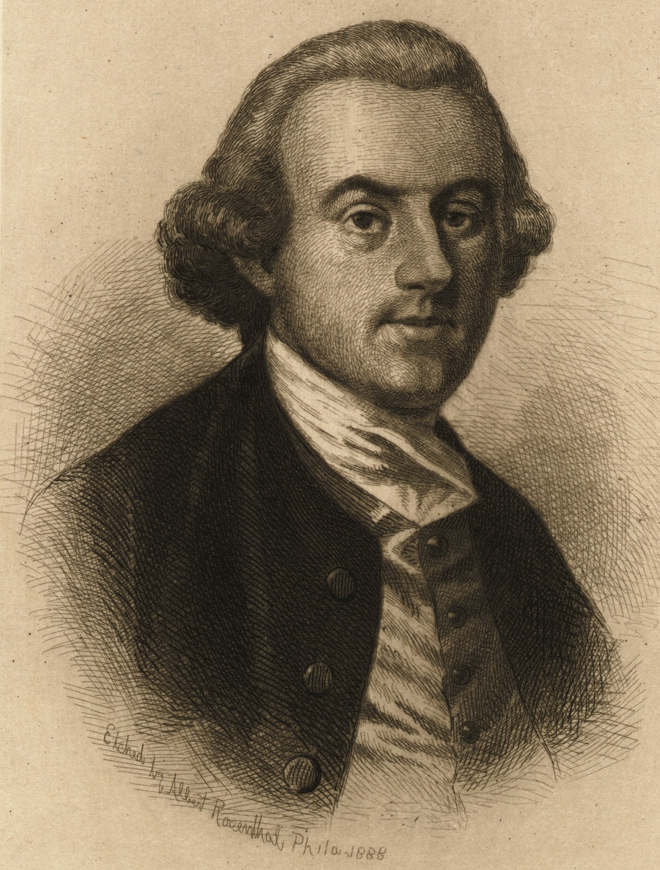 Printmakers include H.B. Hall, J.B. Longacre, Peter Maverick, Max Rosenthal. Draughtsman is David McNeely Stauffer. Title from Calendar of Emmet Collection. EM983 EM0983